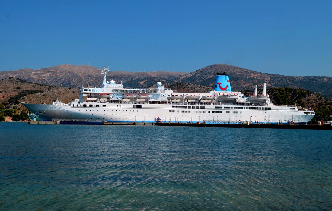 MarellaCelebration docked in Argostoli's port